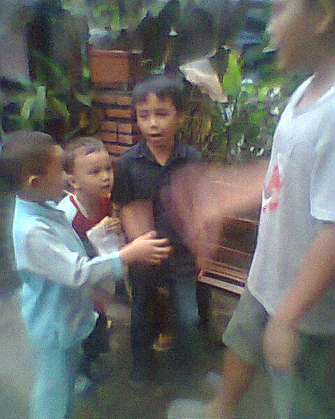 Hompilah